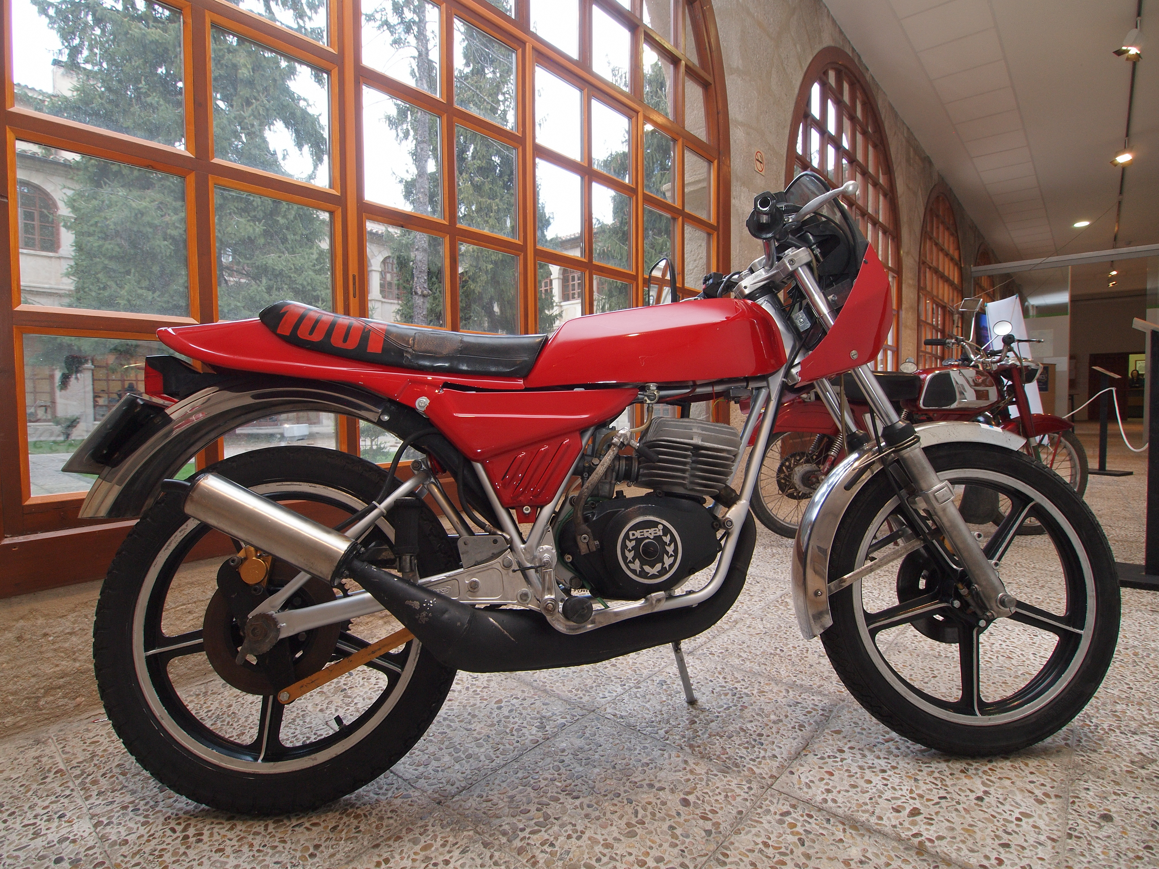 Derbi 1001 motorcycle, 50cc (1977) in the II Exhibition "Toda una Vida en Moto" of the Asociacion Motociclista Zamorana (Zamora, Spain 2012); year 1977 as stated at the show's info, but probably better around 1980